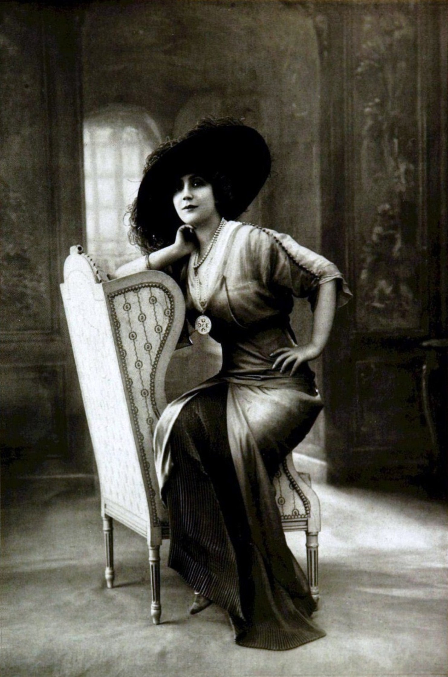 Photograph of Mademoiselle Xavière de Leka in 1912, dressed by Zimmermann. Xavière de Leka, pseudonym of Xavière Colonna de Leca, was a French actress born in Ajaccio (Corsica) on 7 April 1881 and died in Paris (8th arrondissement) on 5 April 1914, at the age of 32 years old. Xavière de Leka was a Boulevard theatre actress and performer of the Moulin Rouge. She plays mainly at the Théâtre des Variétés and the Théâtre des Capucines in Paris during the Belle Époque.